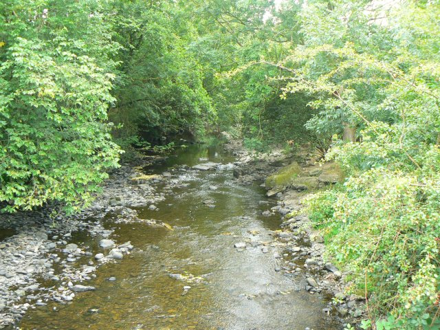 River Rhiw On the outskirts of New Mills/ Felin Newydd